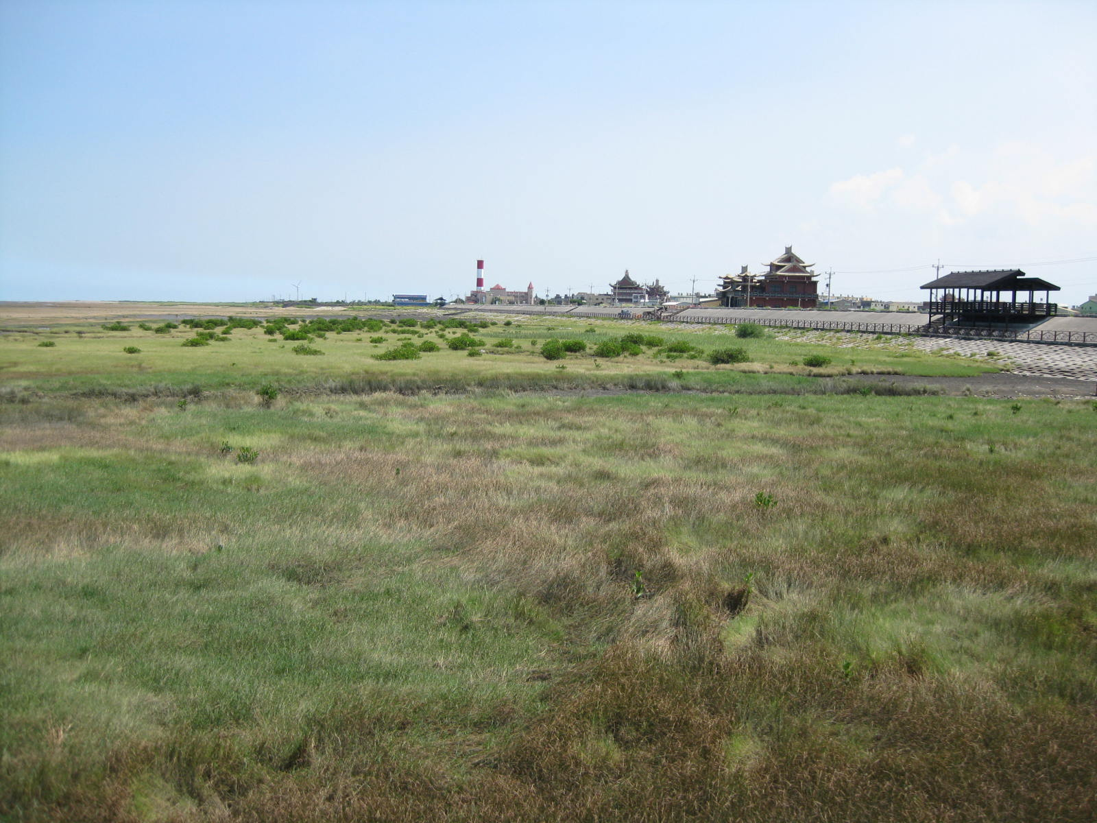 Looking north toward Gaomei Wetland from the dike,locared Qingshui,Taichung.